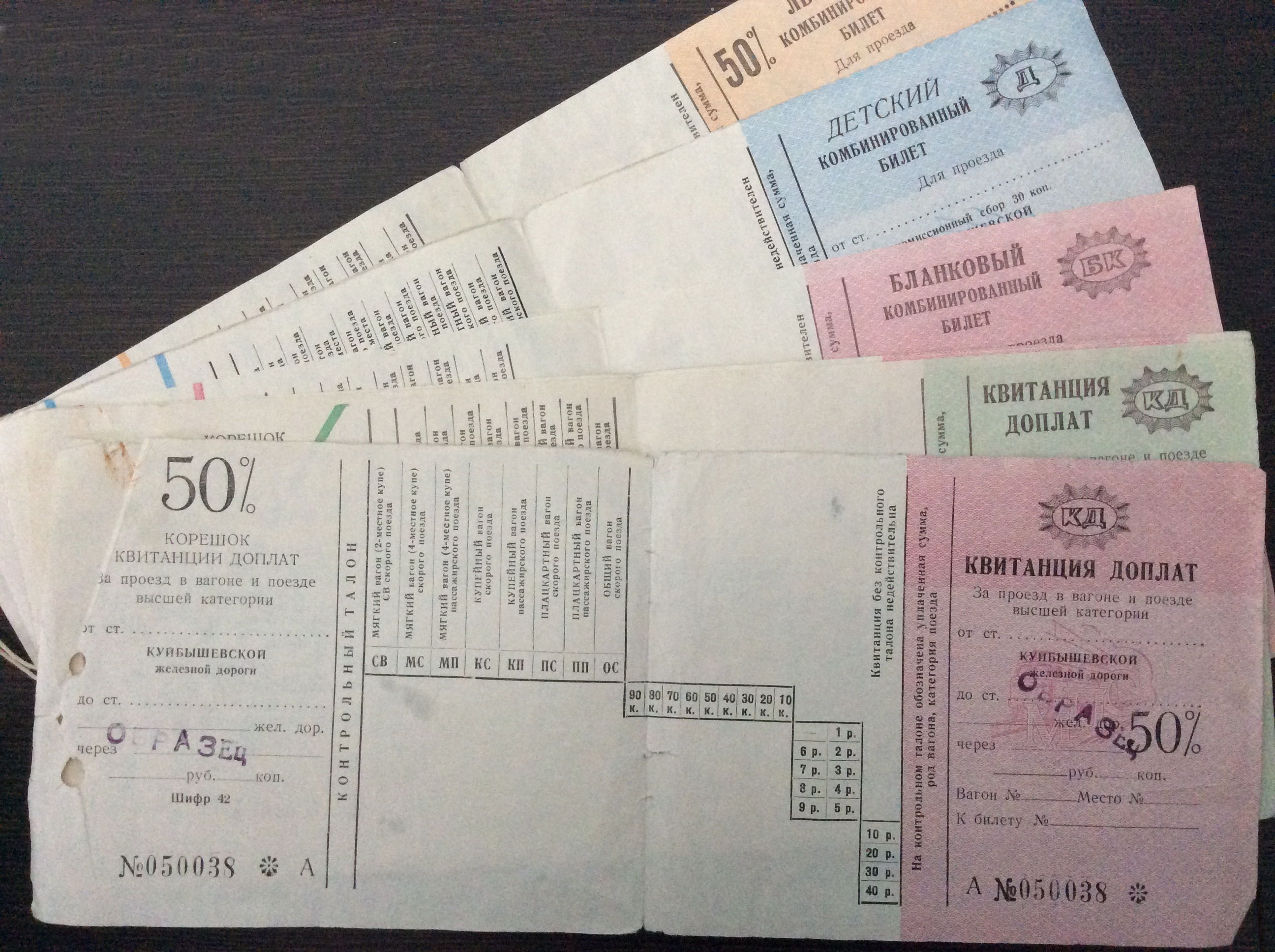 Railway tickets, Soviet Union, 1970s